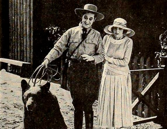 Still from the American comedy western It's a Bear (1919) with Taylor Holmes and Vivian Reed, on page 15 of the April 1919 Film Fun. He brings home a bear and, in the end, marries the school teacher.